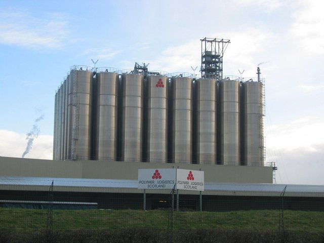 Polymer Logistics. A lot of the hydrocarbons entering Grangemouth end up as polymers, polyethene, polyproylene etc. A lot of those horrid plastic bags littering the place were made with polymers bought from here.